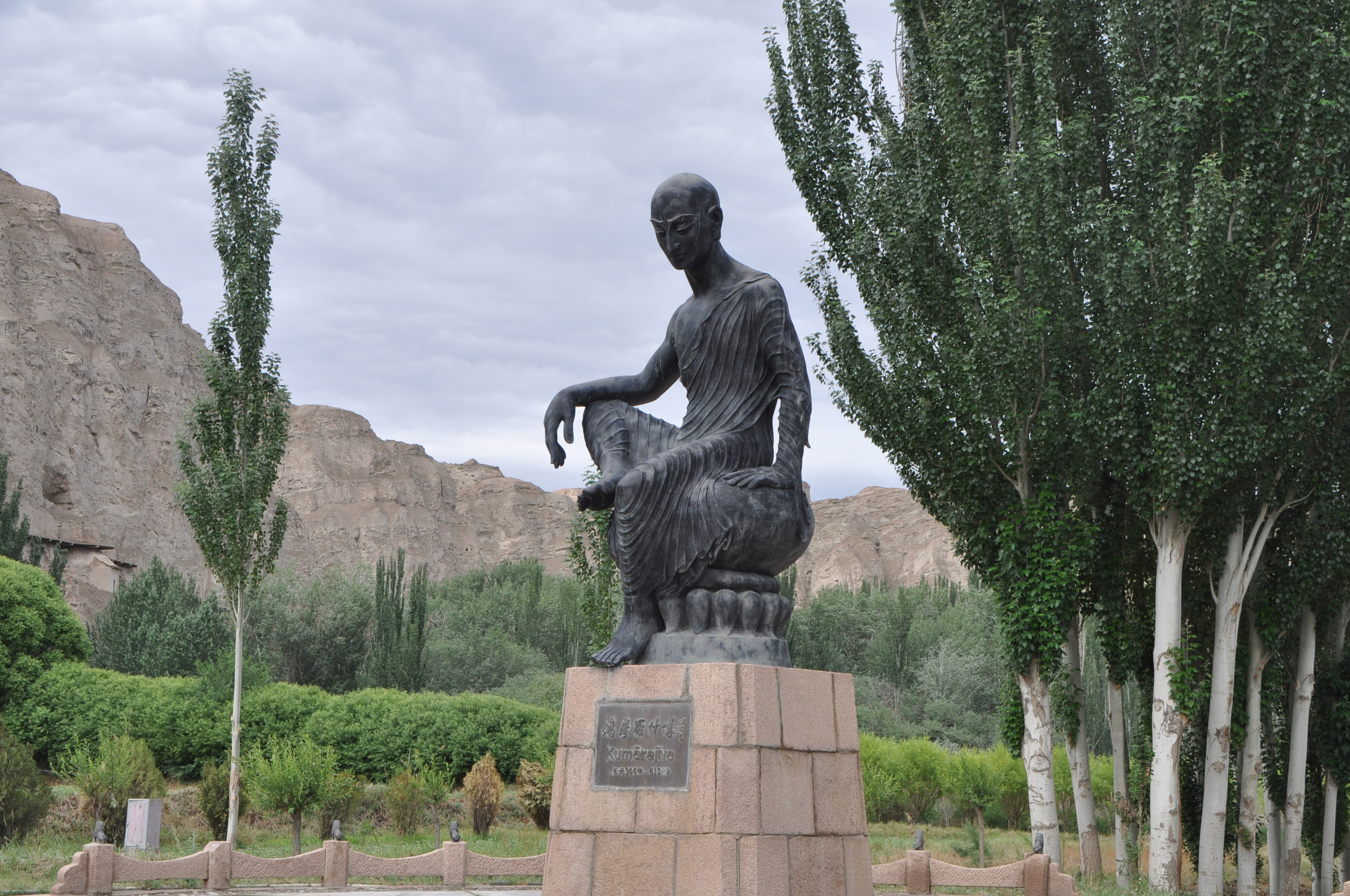 Kumarajiva in front of Kizil Caves, Kuqa, Xinjiang, China